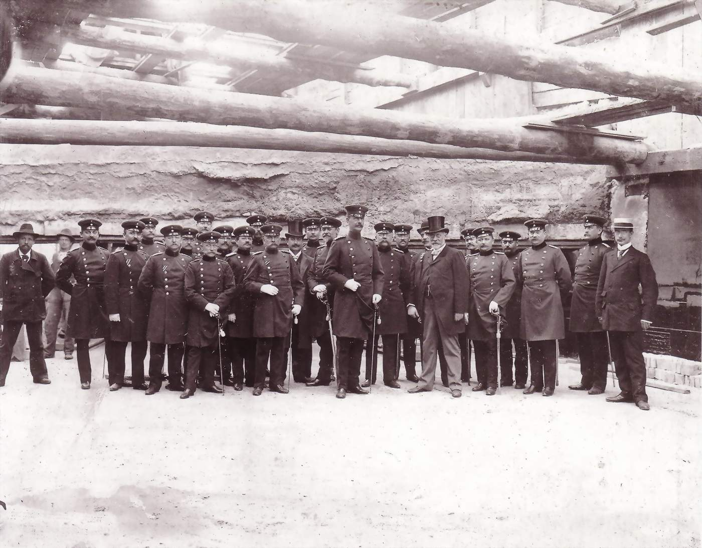 construction site of the Berlin underground station Knie, today Ernst-Reuter-Platz